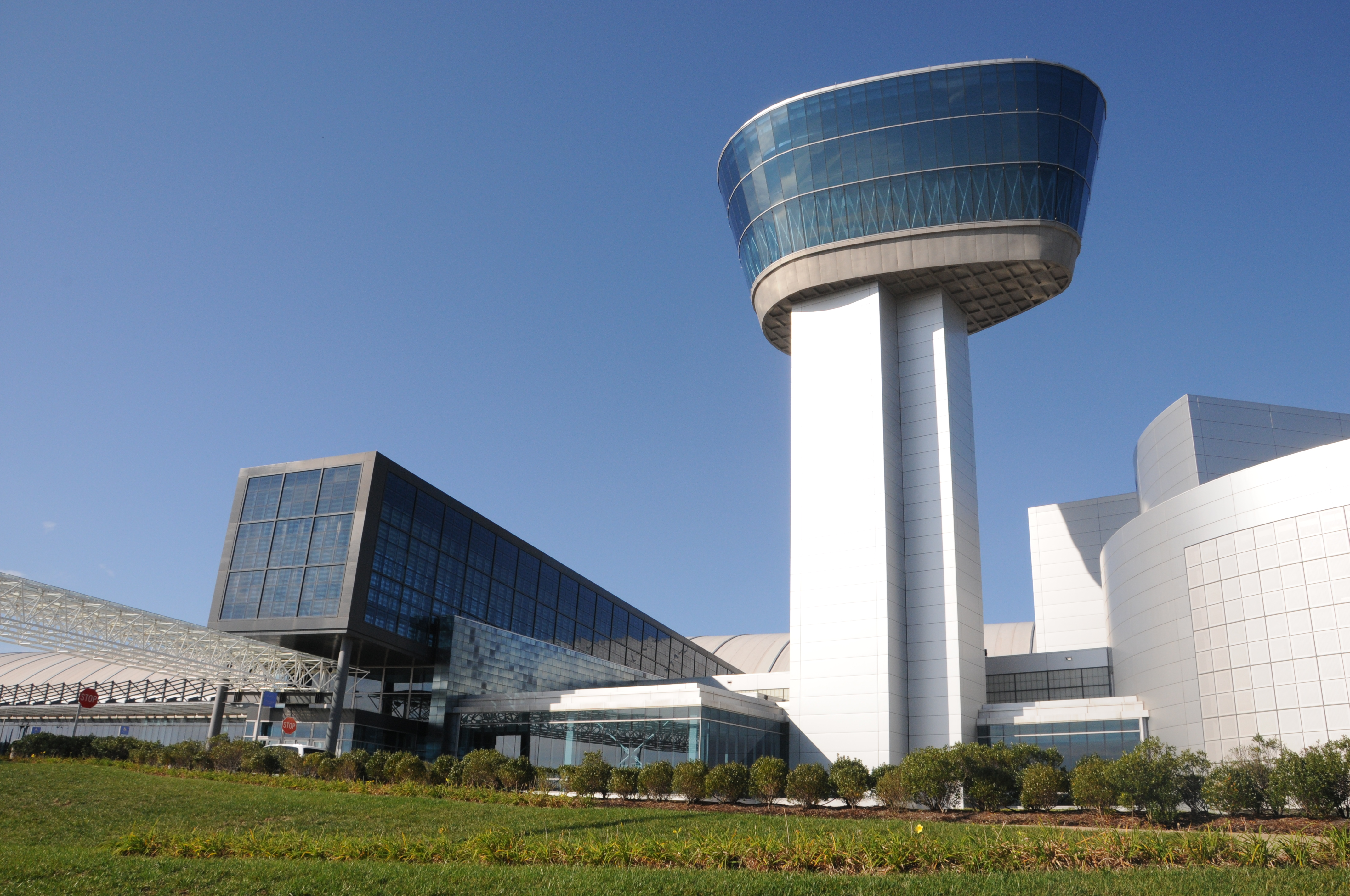 Outside view of the Udvar-Hazy center, taken by myself from the parking lot.